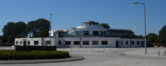 The Beehive, Beehive Ring Road, Crawley, West Sussex, England. Former terminal building at Gatwick Airport. At one time was the headquarters of GB Airways. Listed at Grade II* by English Heritage (ref #461938)